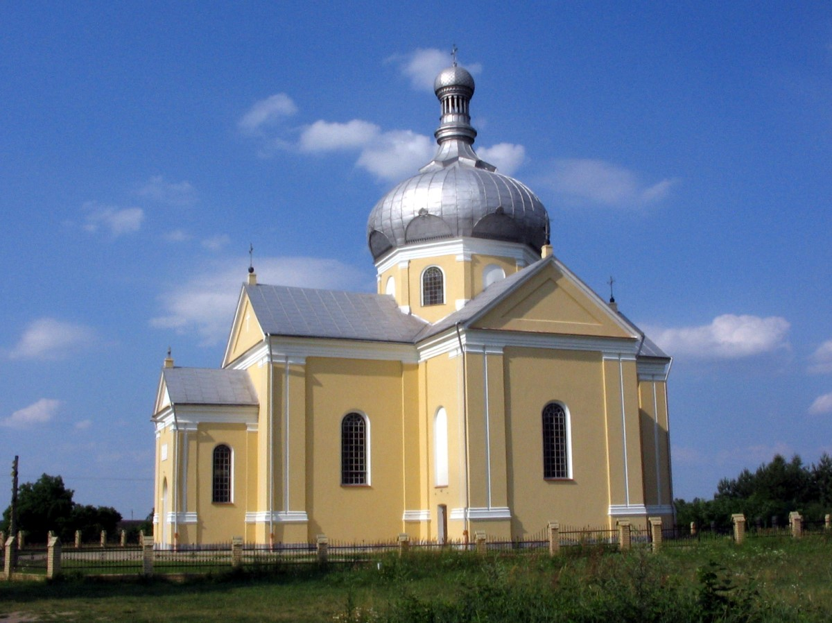 Dobra - former Greek Catholic church